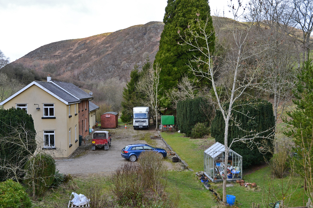 Tylwch Halt. The station master's house at this one-time halt on the Mid Wales Railway (later Cambrian, Great Western and British Railways) has been nicely converted into a private dwelling. The remains of the right-hand platform, a later addition to the station, can still be seen.